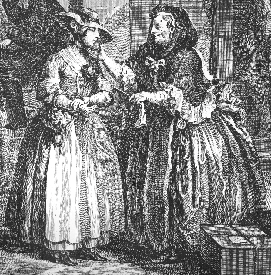 William Hogarth's A Harlot's Progress, plate 1, showing Molly's arrival in London, with Colonel Francis Charteris and "Handy Jack" leering in the background, while a syphilitic madame in the foreground procures her first. According to A Harlot's Progress: Brothel keeper Elizabeth Needham on the right